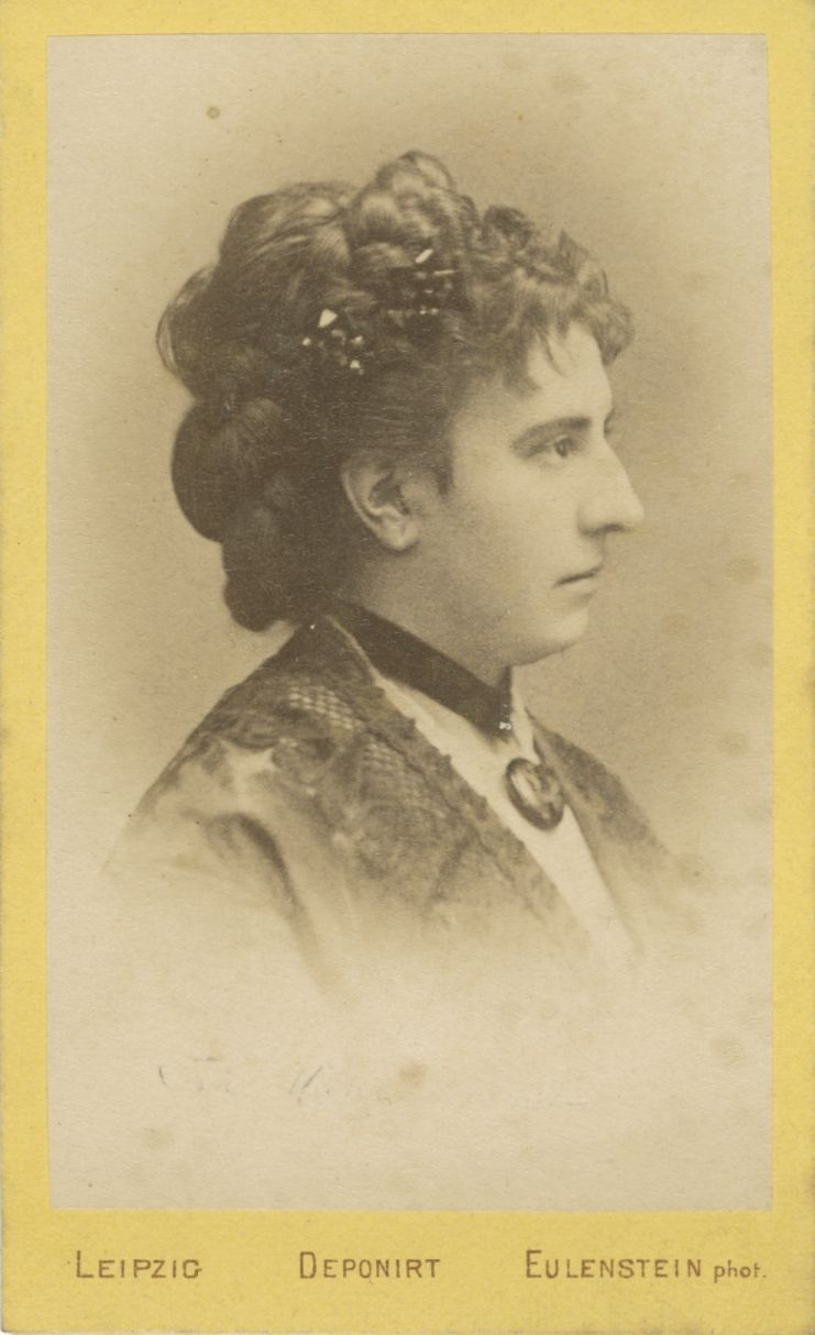 Photographer: Eulenstein, Leipzig Date/place: Unknown date/Leipzig Subject: Marie Geistinger Medium: Photographic posetive Notes: Austrian soprano. Born in1833 - dead in 1903 Original belongs to the Archives at [#//bergenbibliotek.no/digitale-samlinger” Bergen Public Library]